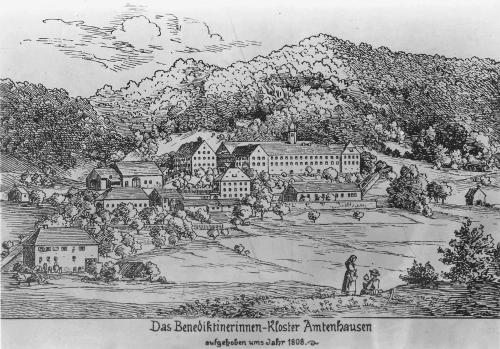 Amtenhausen Abbey in 1808